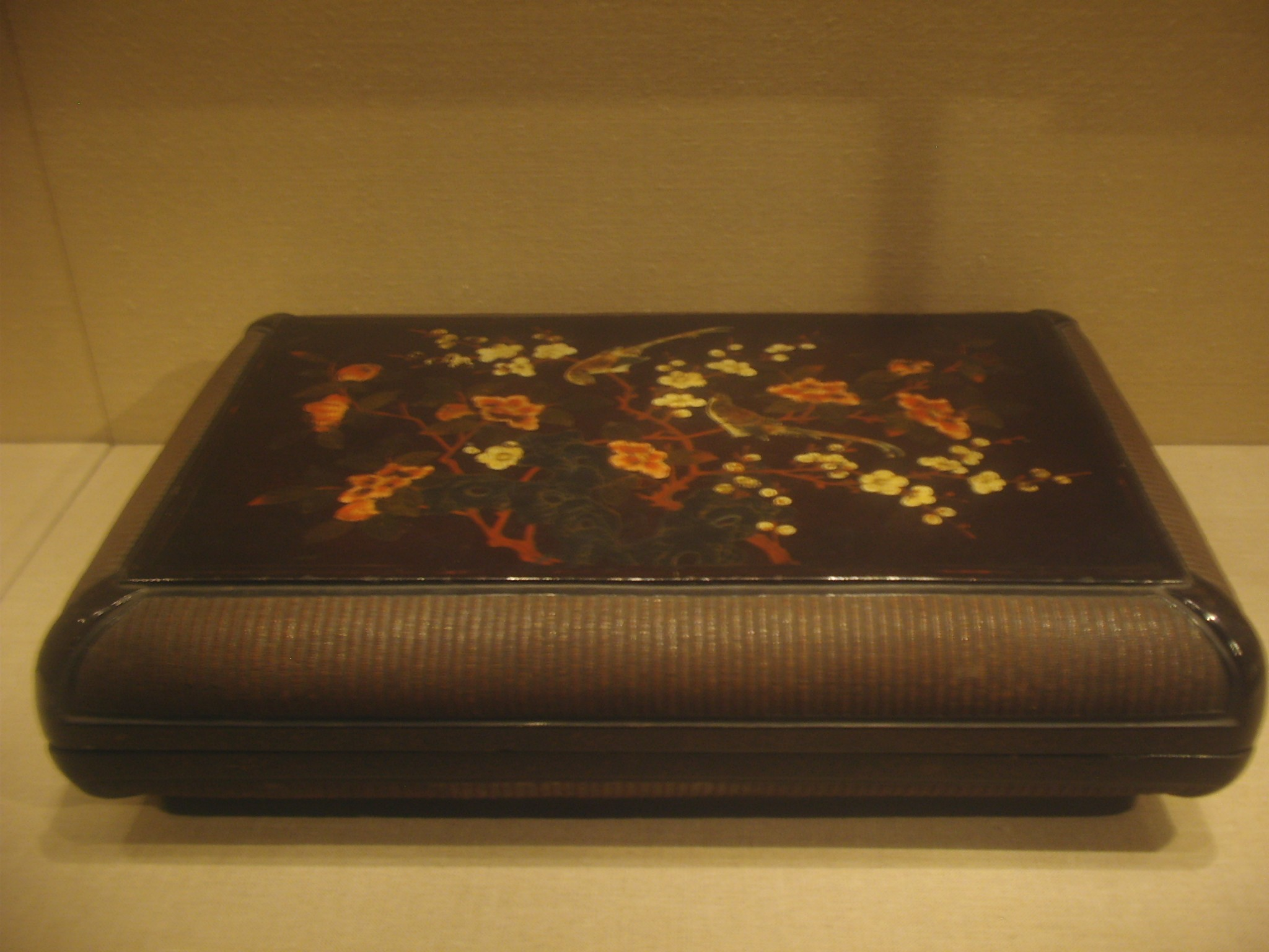 A Chinese rectangular box made of black lacquer and basketry panels, with lacquer paint and oil color for the decoration of flowers and birds, from the Ming Dynasty (1368–1644), dated to the late 16th to early 17th century. The caption at the Metropolitan Museum of Art states: During the late Ming period, lacquer boxes with basketry panels were used for the presentation of gifts and documents as well as for storage. Multicolored designs enjoyed great popularity, and artists also juxtaposed materials of contrasting colors and textures. In the seventeenth century, a rectangular box with straight sides gradually replaced the round-shouldered type seen here.